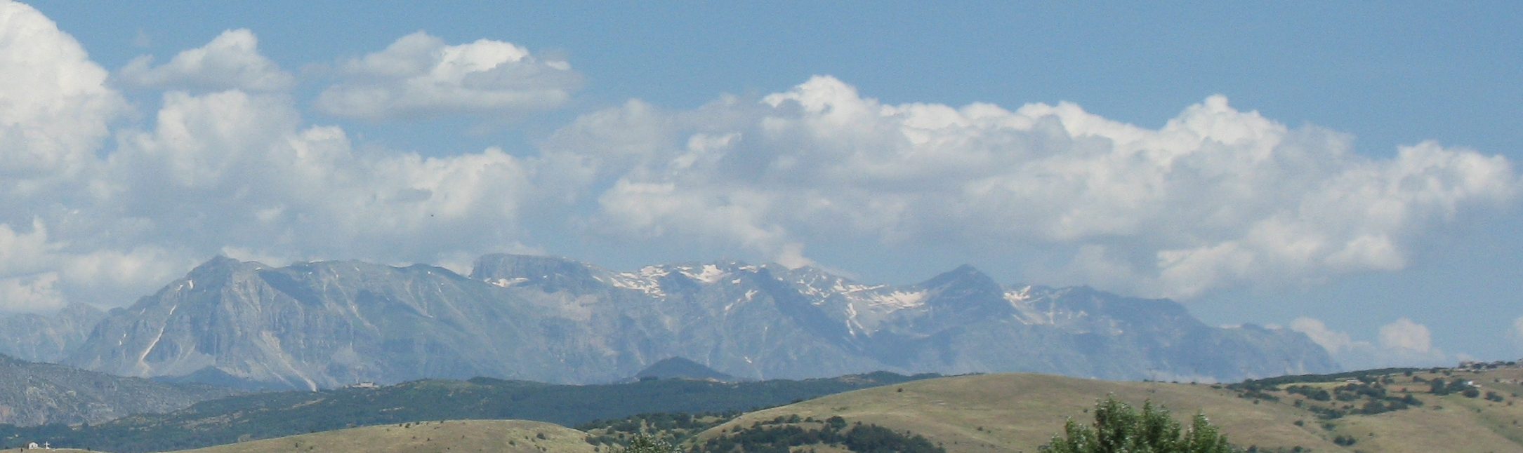 Pindus Mountains: View from Ioannina University Campus.